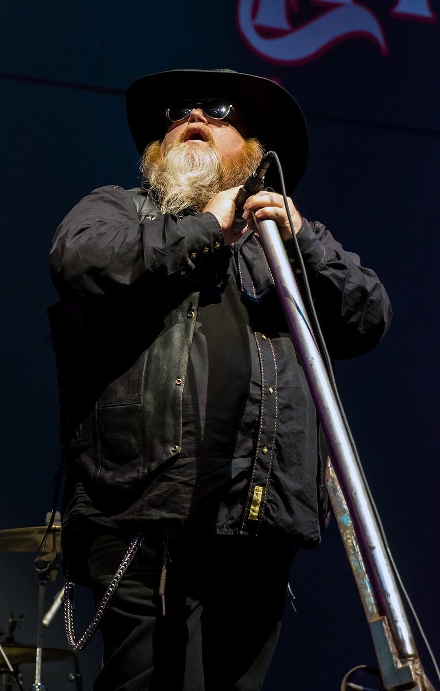 Big Dad Ritch performing in 2015